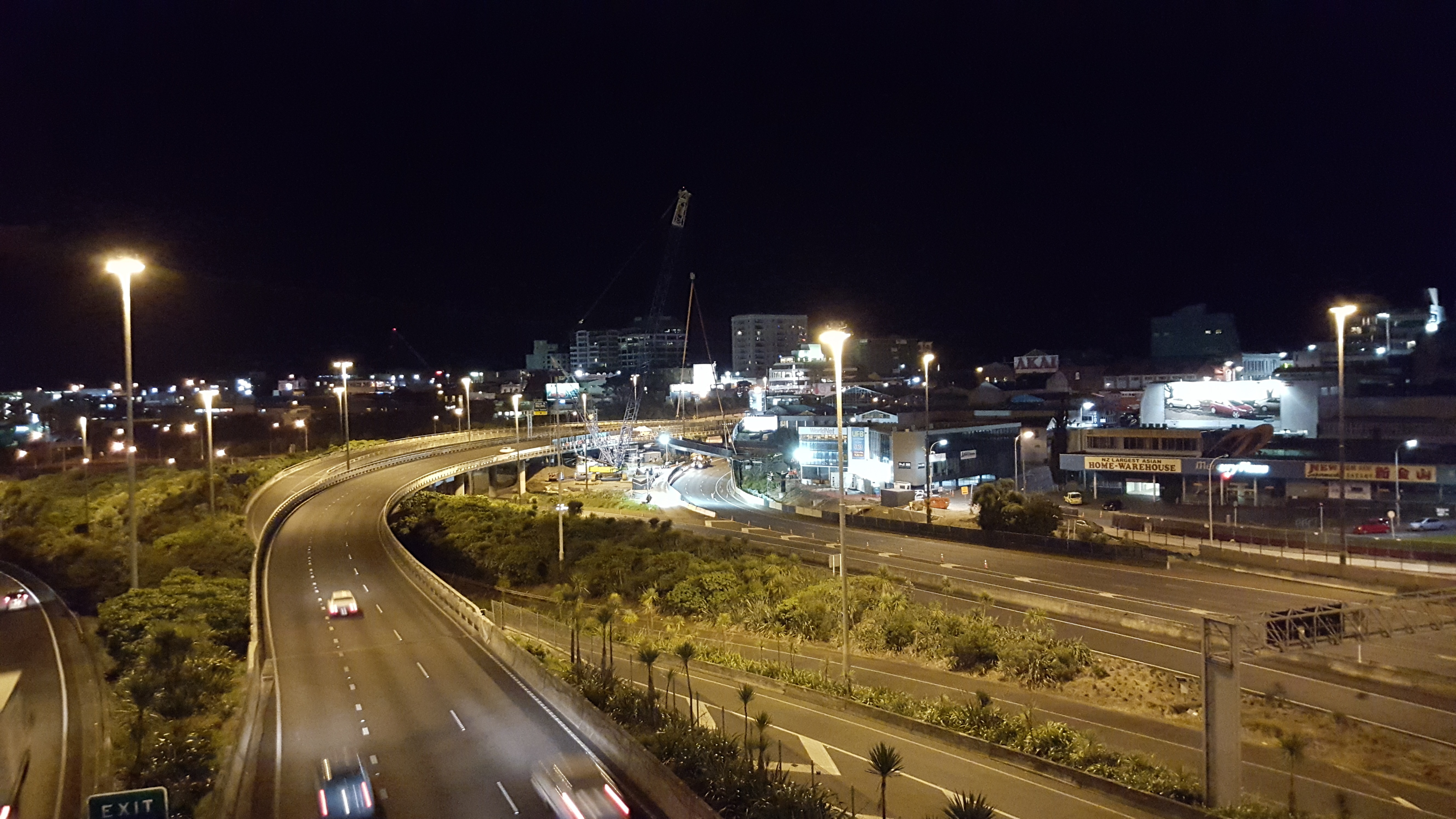 The final and longest span of Canada Street Bridge is pretty much in place now at the end of the lift. Seen from Upper Queen Street Bridge.